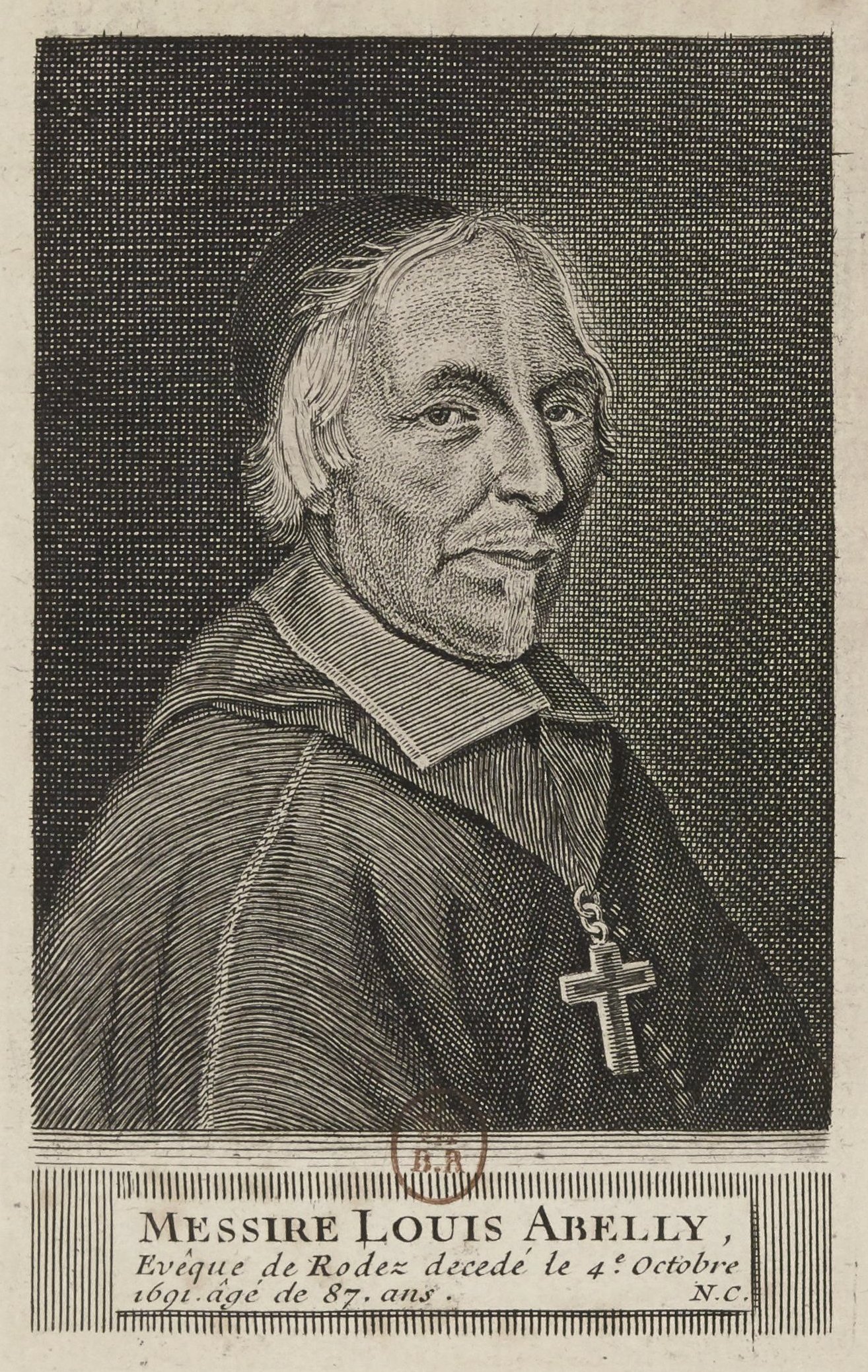 Louis Abelly (1603 - 1691), Bishop of Rodez, collaborator of Saint Vincent de Paul, french theologian against jansenism.